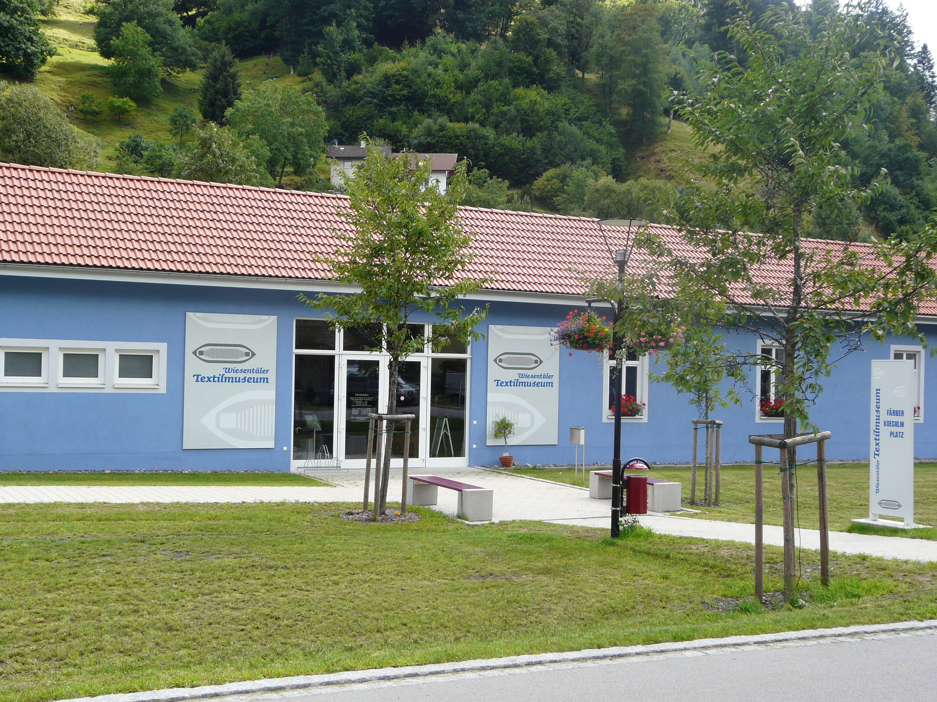 Museum of the Textile Industry in Zell im Wiesental